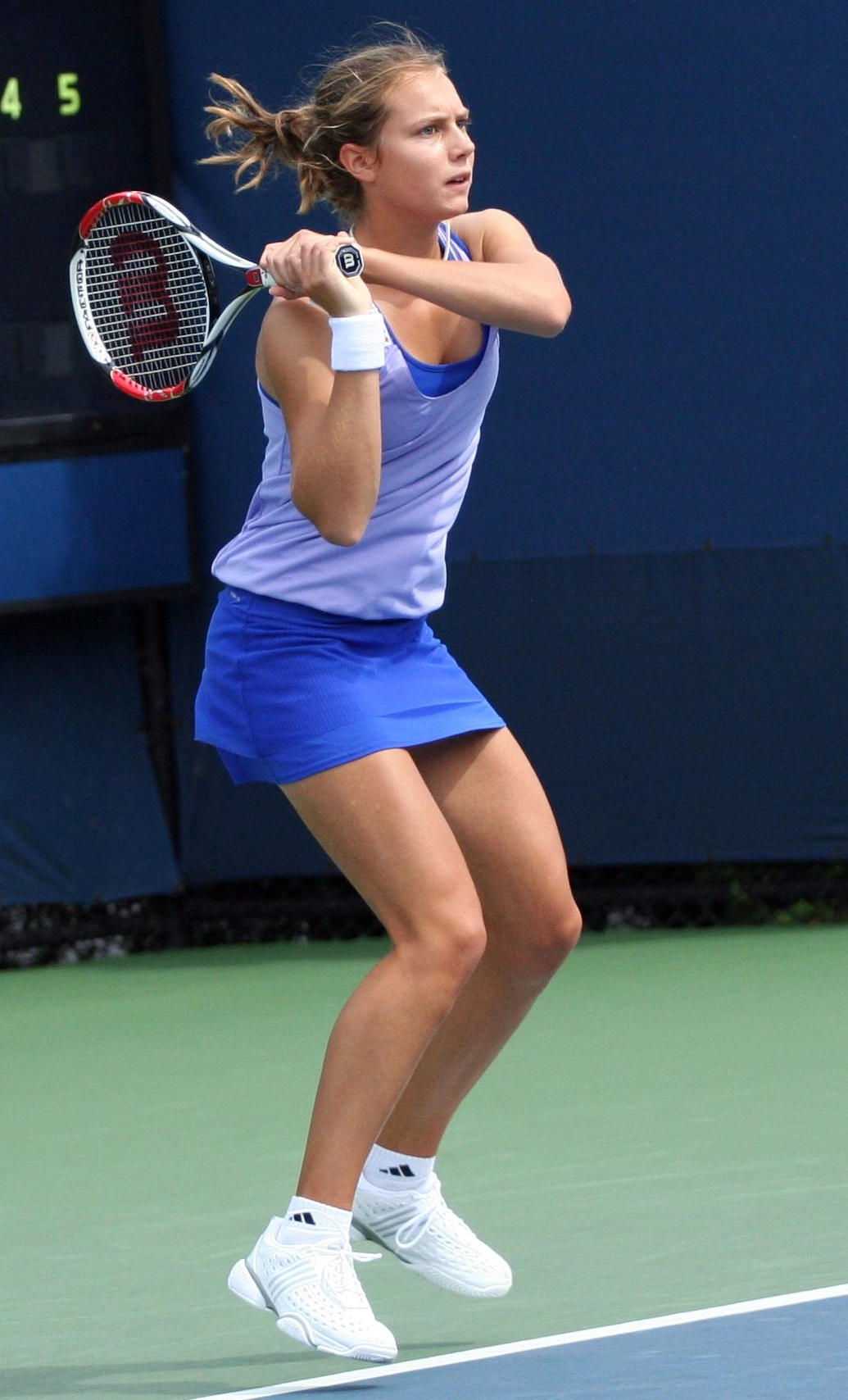 U.S. Open Monday, Aug. 31, 2009